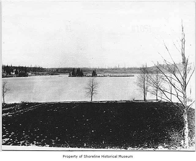 Description: Bridge to island visible at left. The bridge linked the island with the west shore of the lake. Mr. Ballinger's house was located on the island. [Source of caption: Shoreline Historical Museum Staff.] View source image . More information on the commercial rights for this photo . Part of King County Snapshots University of Washington Libraries . Brought to you by IMLS Digital Collections and Content . Unrestricted access; use with attribution.